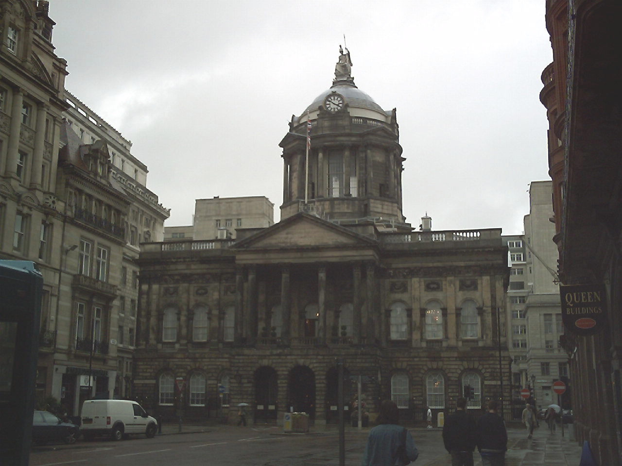 A photograph of Liverpool Town Hall